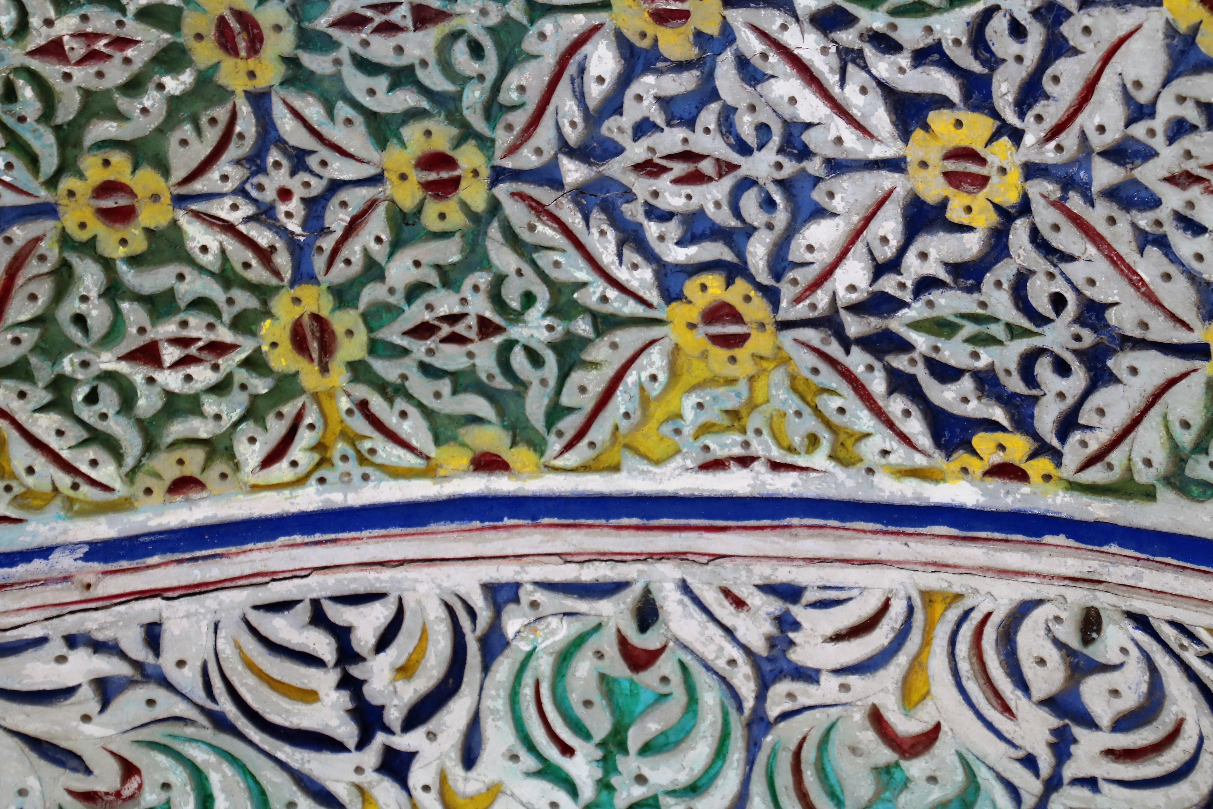 Fez, Jewish quarter